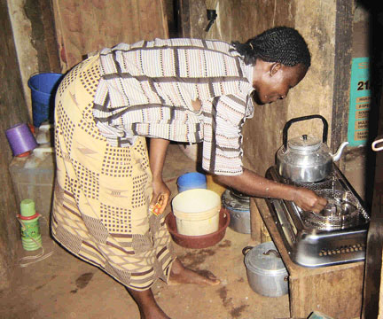 Photograph of Nigerian woman demonstrating her daily use of the stove.